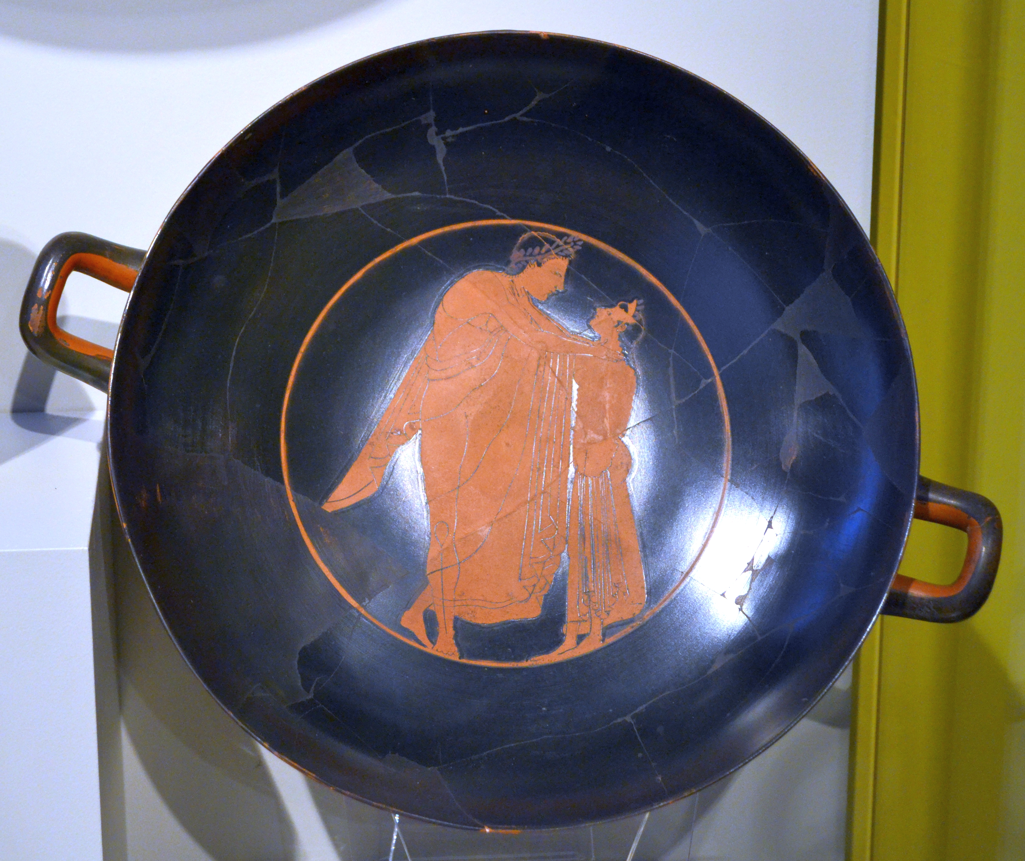 Attic red-figure Kylix by the Kiss Painter (Name vase. Tondo: EROTIC, DRAPED YOUTH AND WOMAN; A,B: KOMOS, MEN AND YOUTHS, WITH SKYPHOS, KROTALA, POINTED AMPHORA. About 520/10 BC.Antikensammlung Berlin/Altes Museum, Invnr F 2269